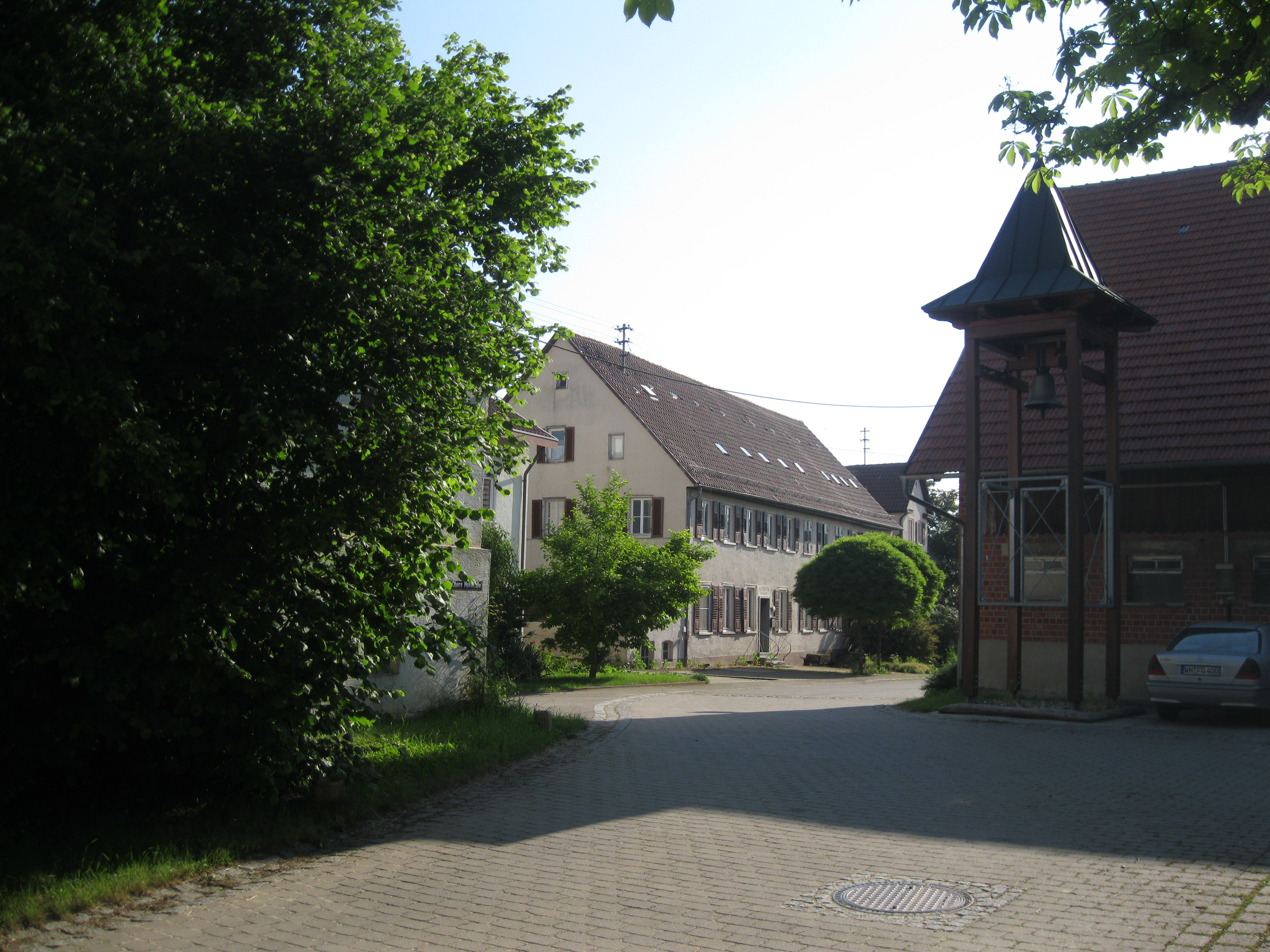 Kirschenhardthof